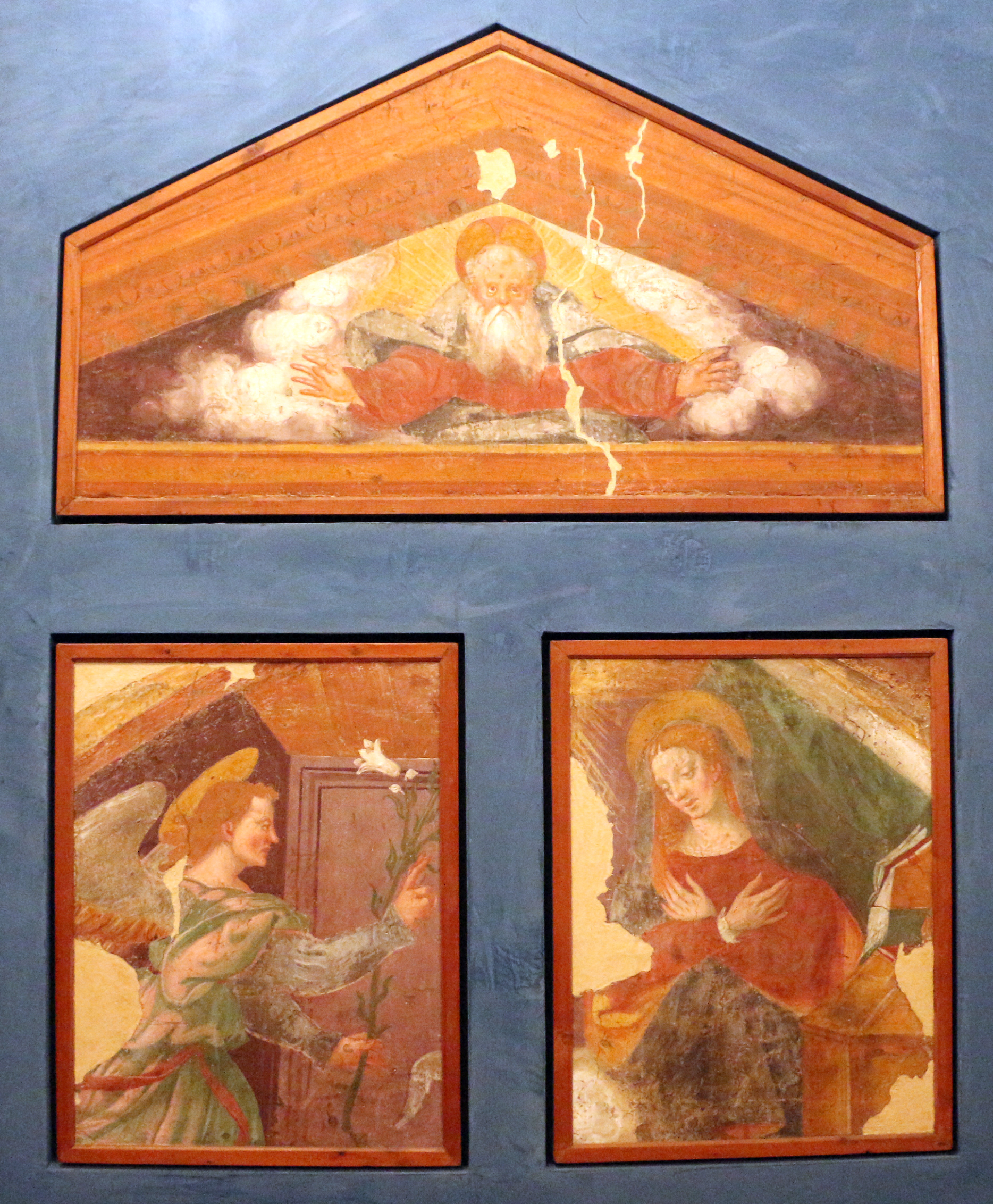 Museo Adriano Bernareggi